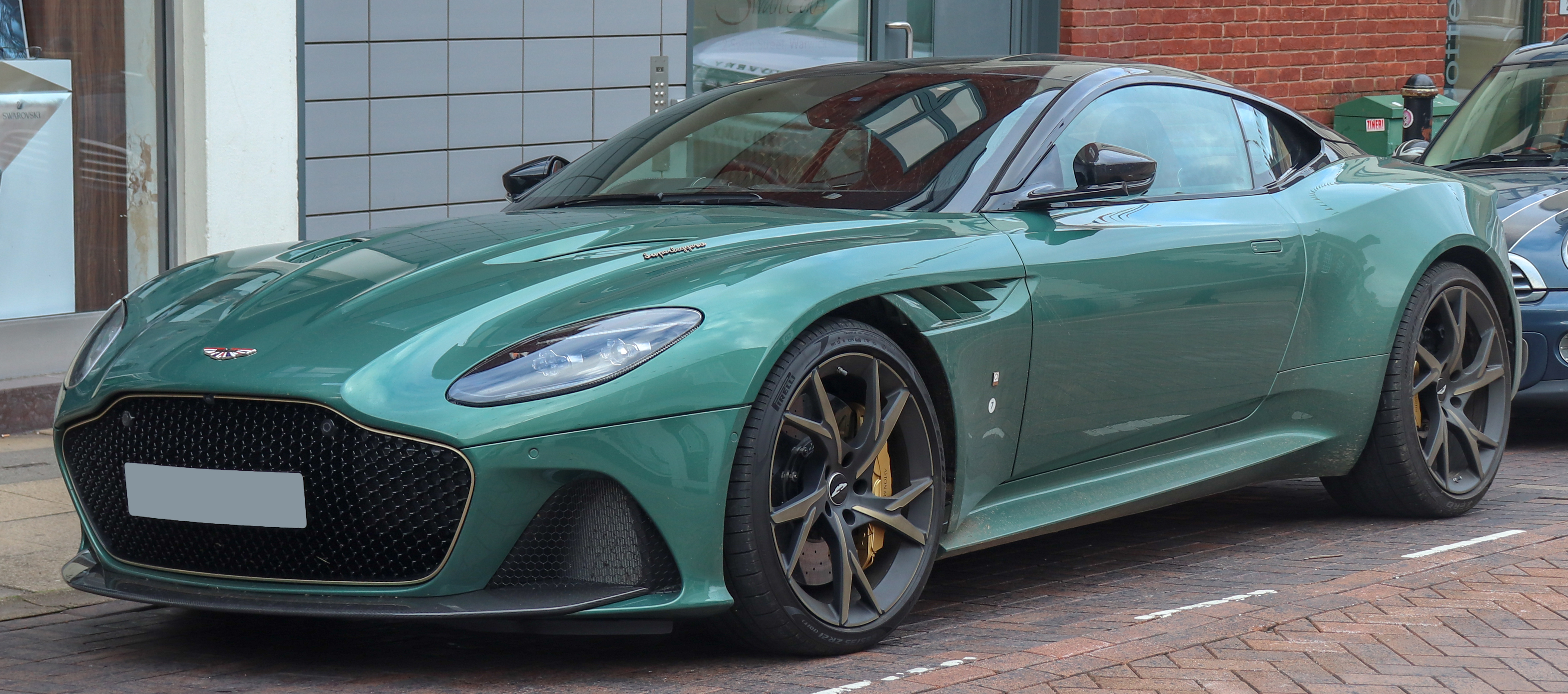 2019 Aston Martin DBS Superleggera V12 Automatic 5.2 Front Taken in Warwick